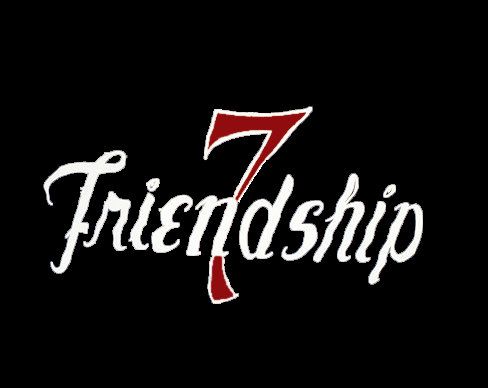 Mercury-Atlas 6 logo for John Glenn's Friendship 7 mission